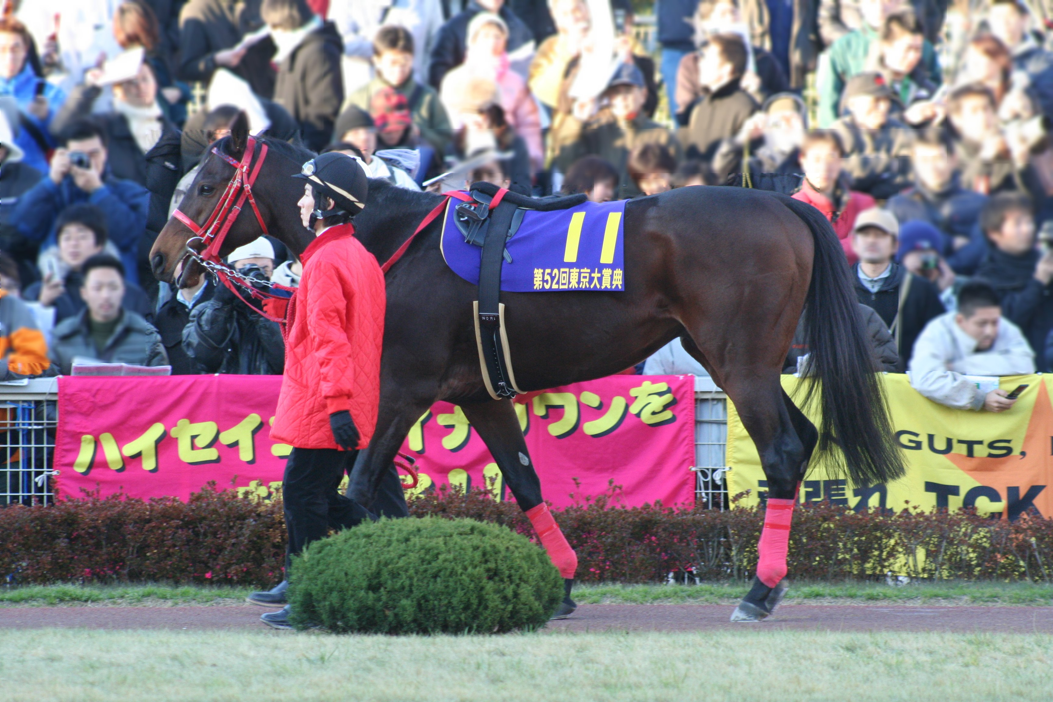 Seeking the Dia(Horse, Oi Racecourse)